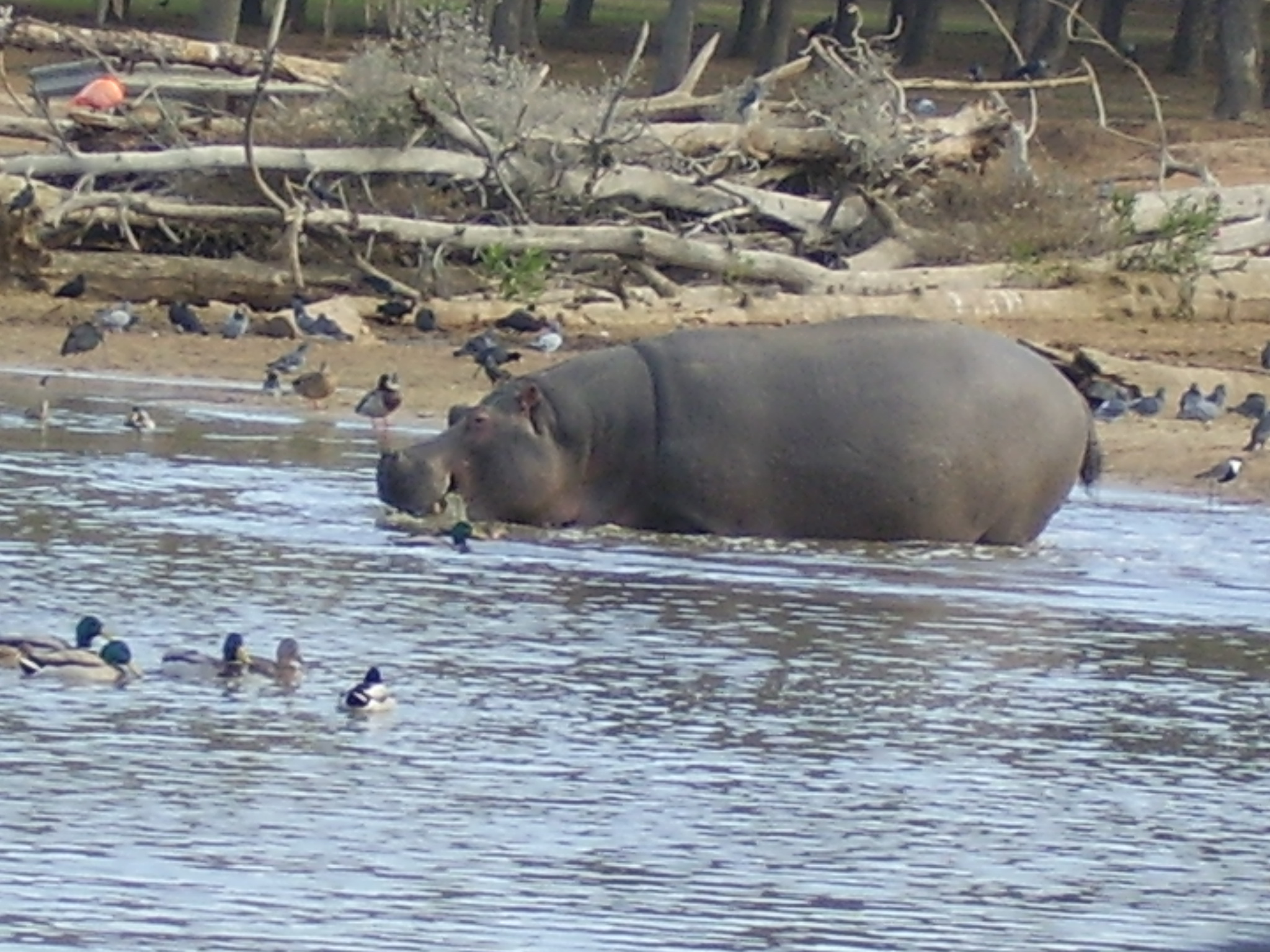 hippo in ramat gan safari